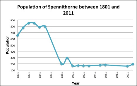 Graph showing population change between 1801 and 2011 in Spennithorne